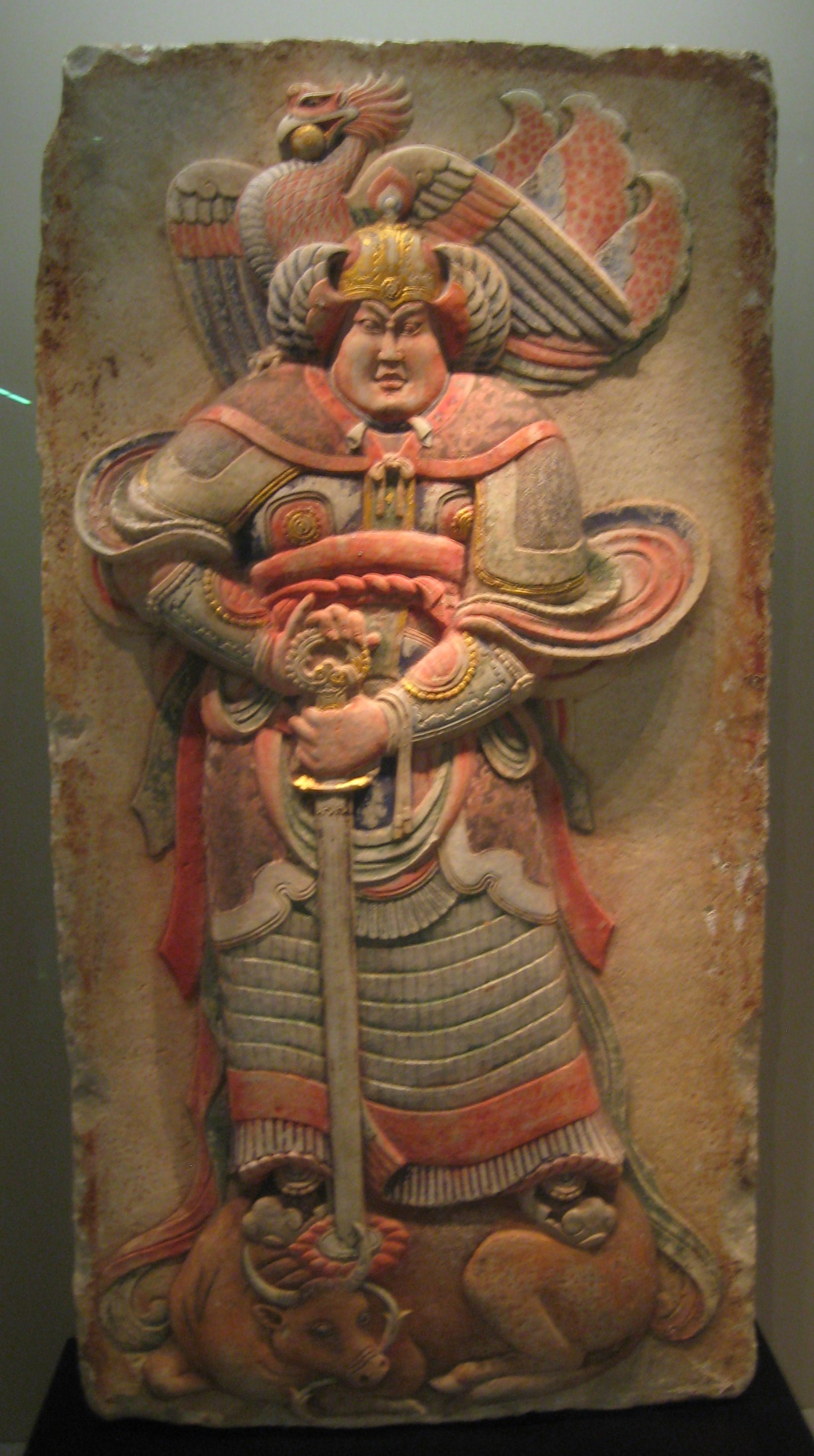 Painted stone relief depicting a warrior from the Later Liang Dynasty. Unearthed from the tomb of Wang Chuzhi 王處直 at Quyang, Hebei Province, 1995.